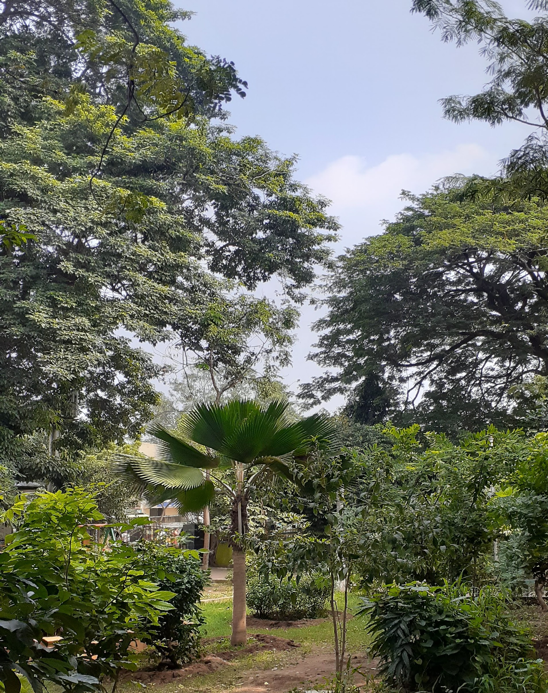 Plants and trees in Venus Park, Perambur, Chennai, Tamil Nadu, India.